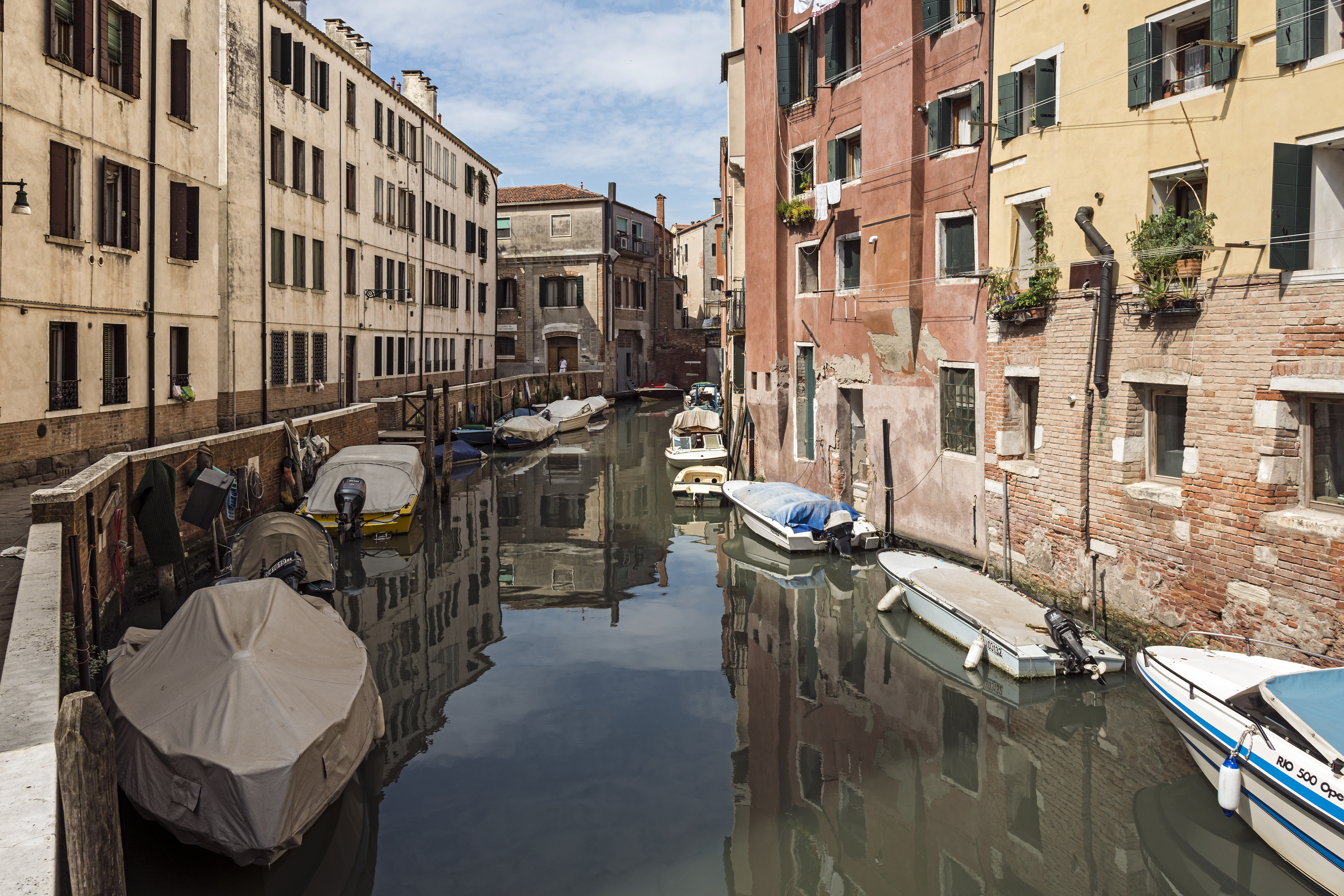 Rio del Gheto, seen from Ponte de Gheto Novissimo from SW, Venice.